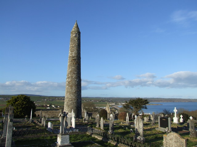 Round Tower, Ardmore, County Waterford. This is the round tower in Ardmore, County Waterford, near the town of Youghal, County Cork. The beautiful Ardmore beach is in the background.